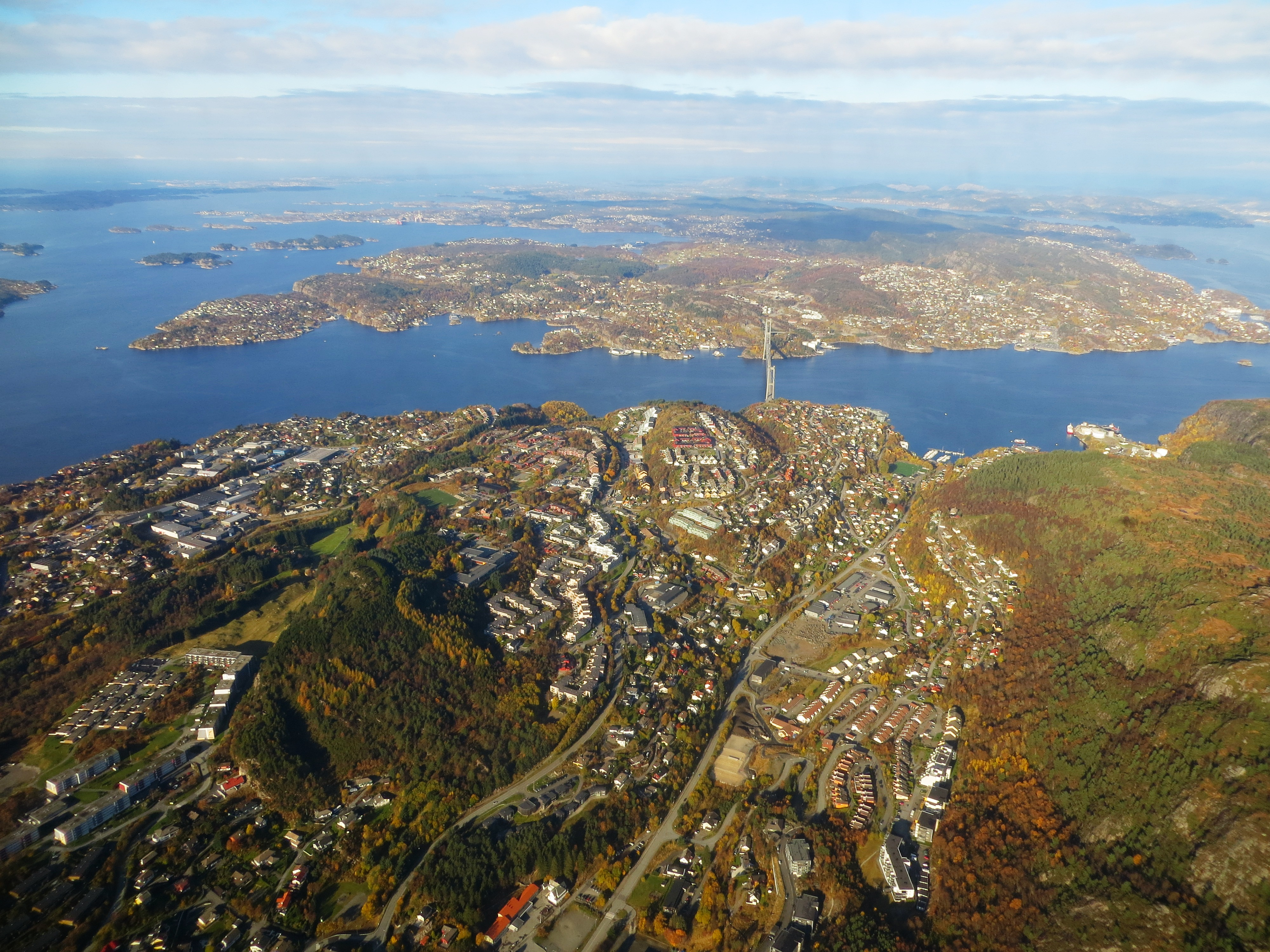 The sound between Askøy and Bergen - Hordaland (Bergen).